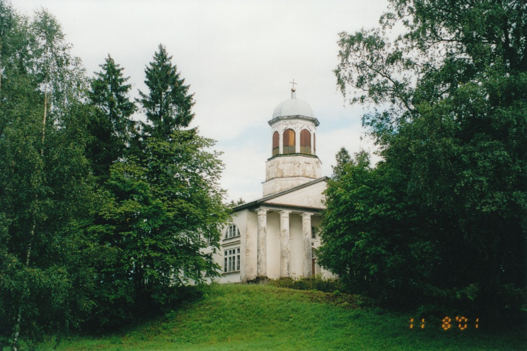 Dzērbene Evangelical Lutheran Church